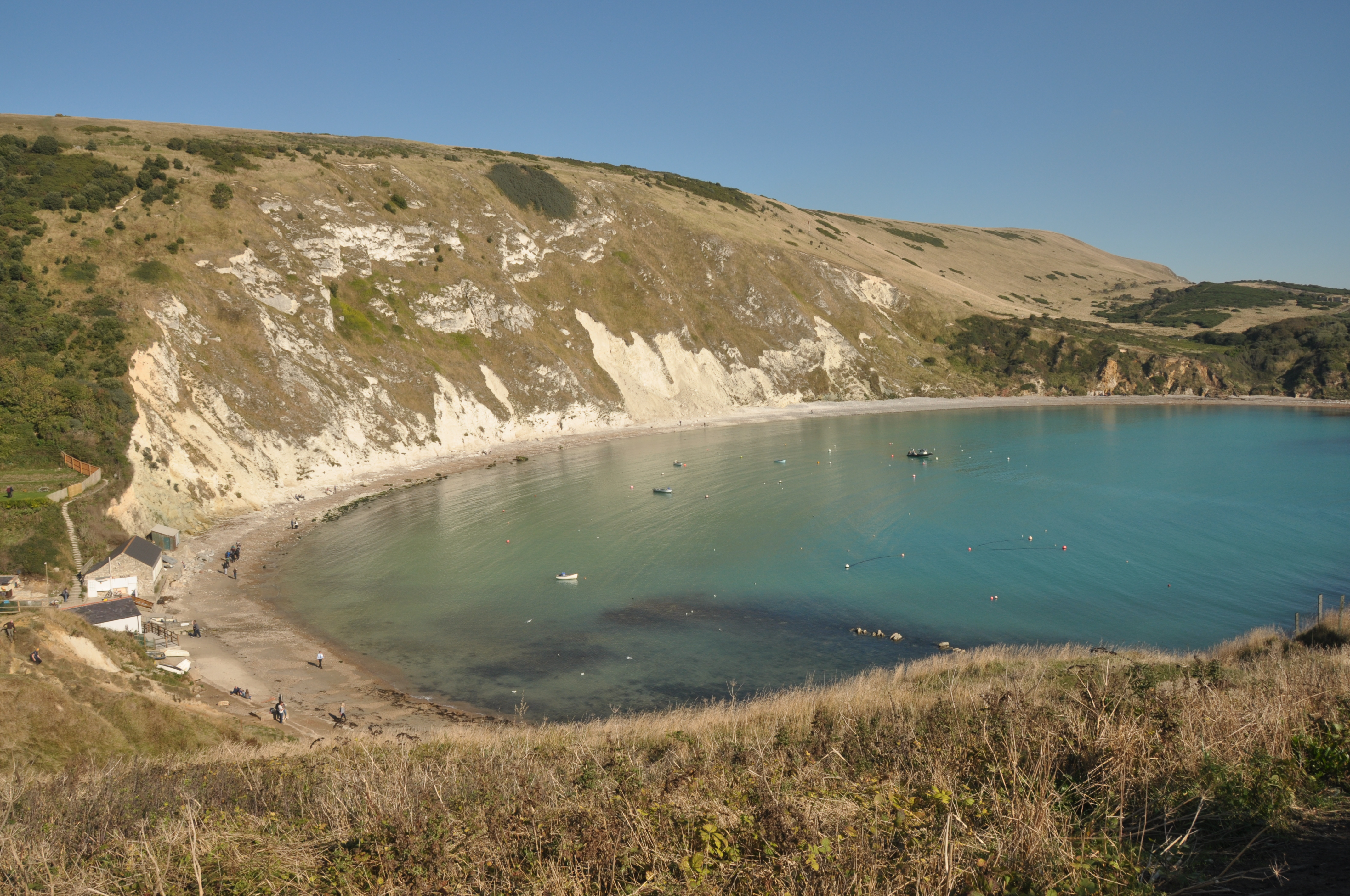 Lulworth Cove